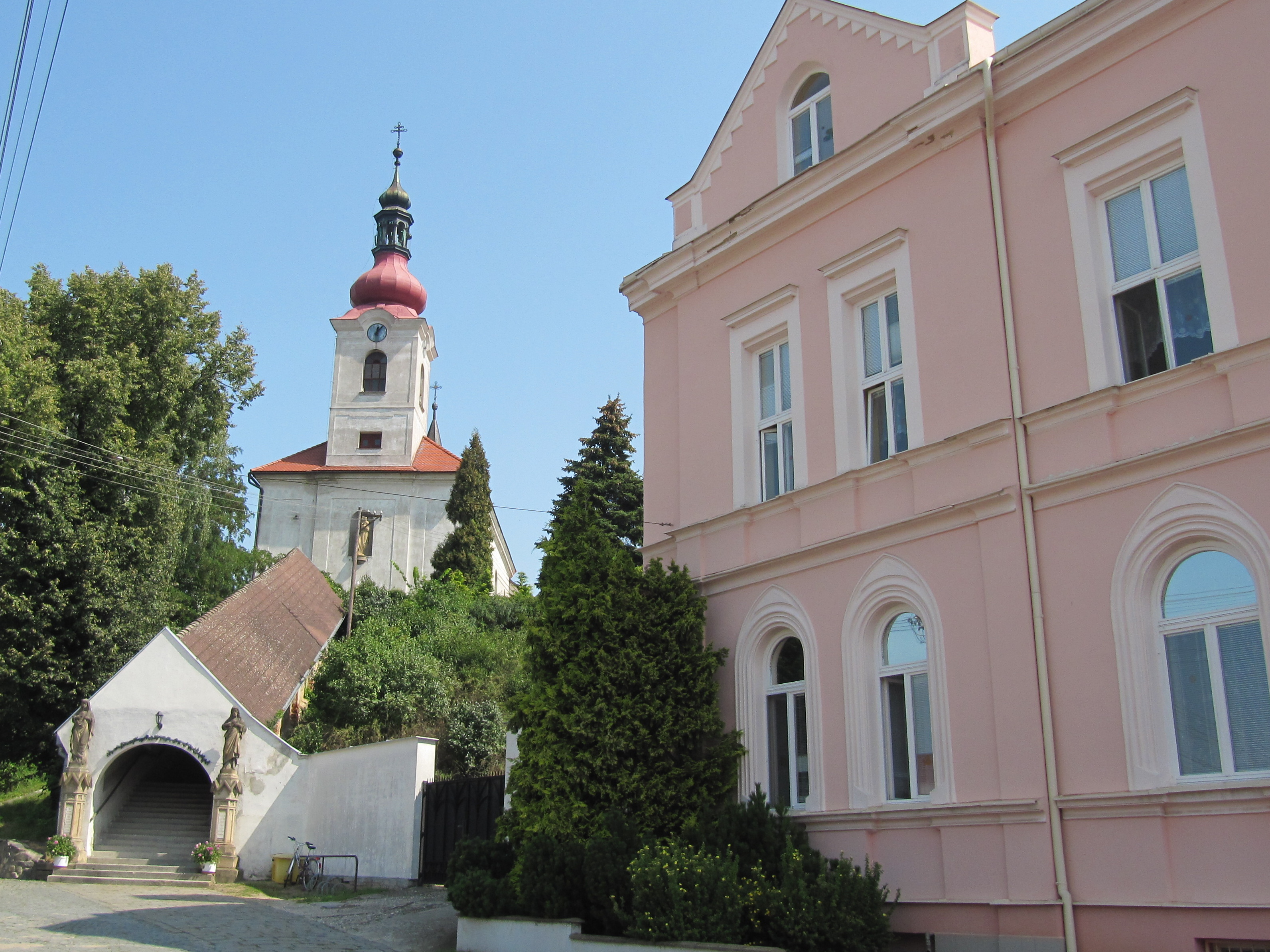 Kokory, Czech Republic, Přerov District. Former convent and church of the Assumption of the Virgin Mary with an indoor staircase. This photograph was taken within the scope of the third year of the 'Czech Municipalities Photographs' grant.